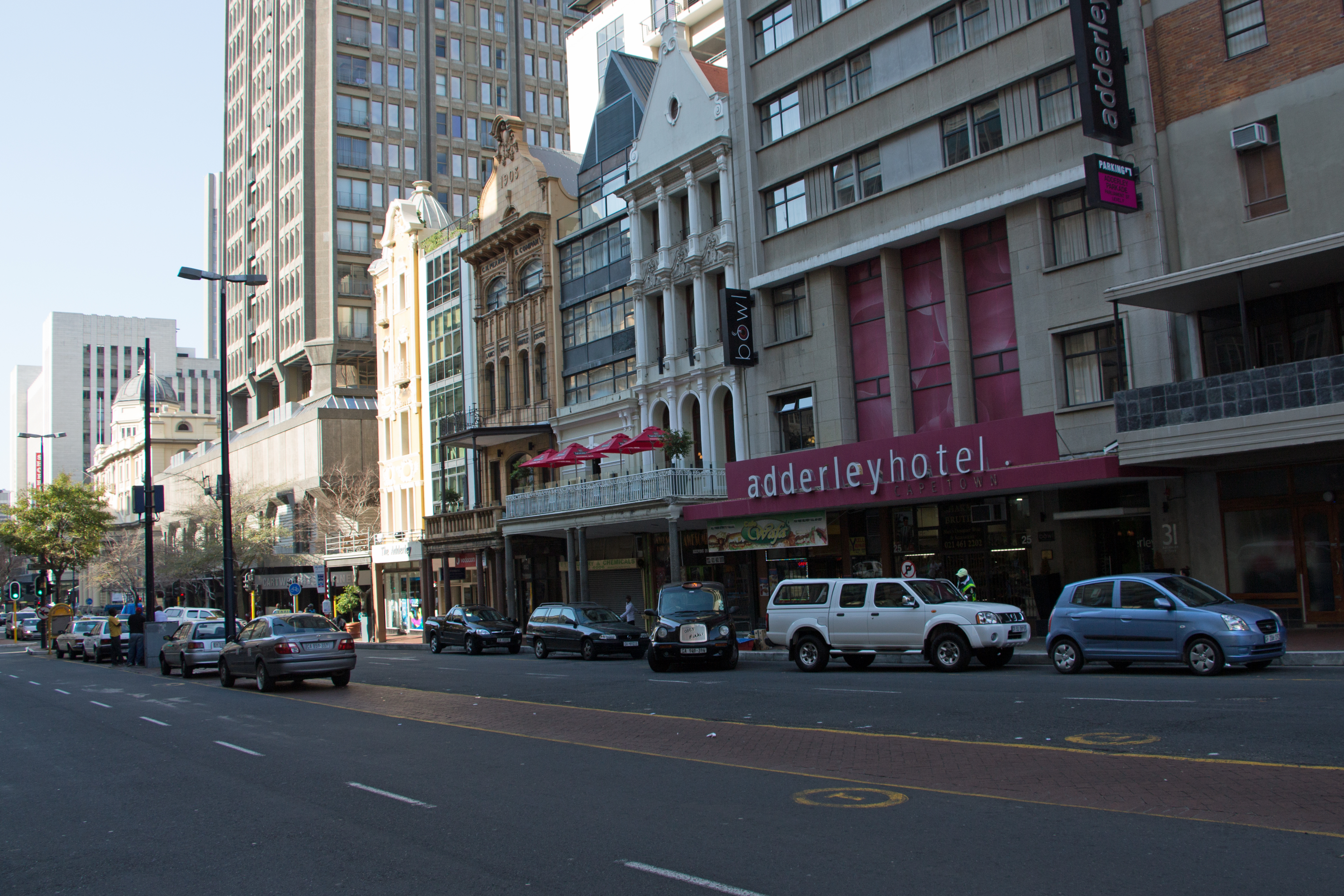 Adderley Street, Cape Town, South Africa. From right to left: Adderley Hotel, The Adderley.